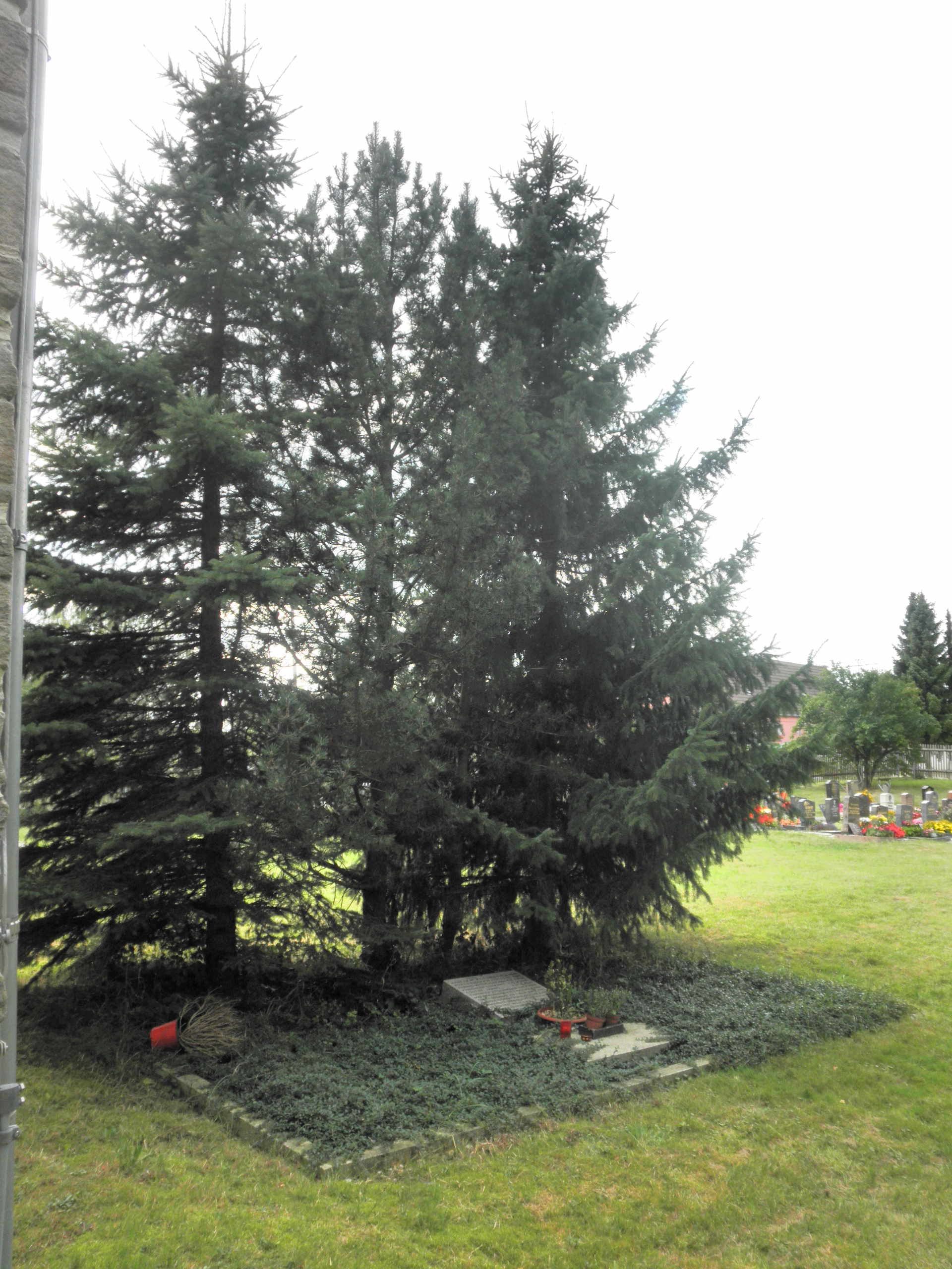 War Graves in Nißma in Saxony Anhalt